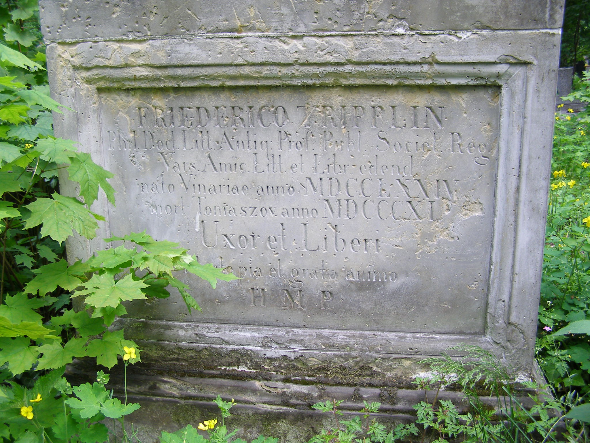 Epitaph in Friedrich Tripplin's gravestone